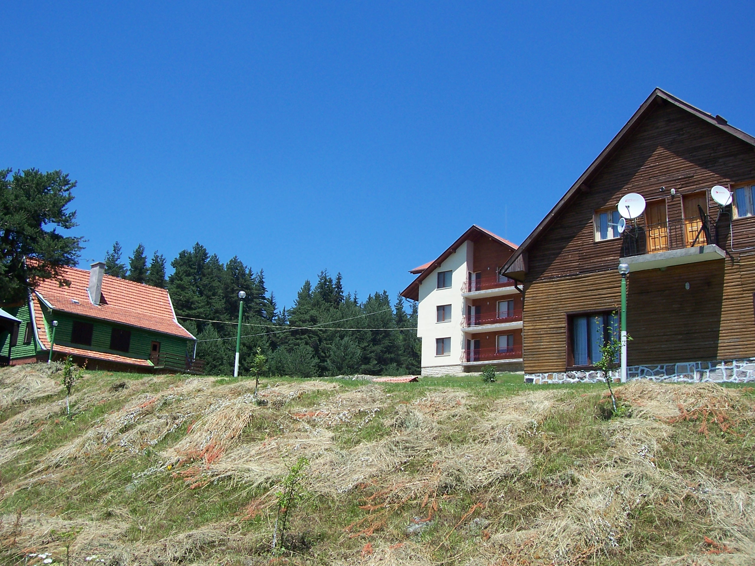 Dikchan Hunting House.